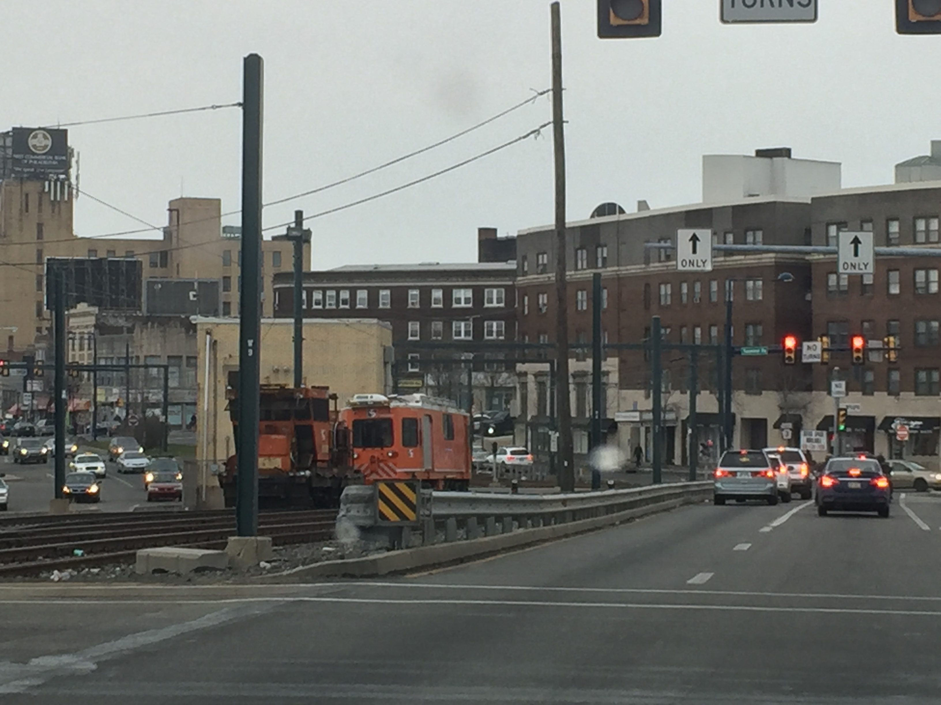 SEPTA trolley tracks in middle of West Chester Pike